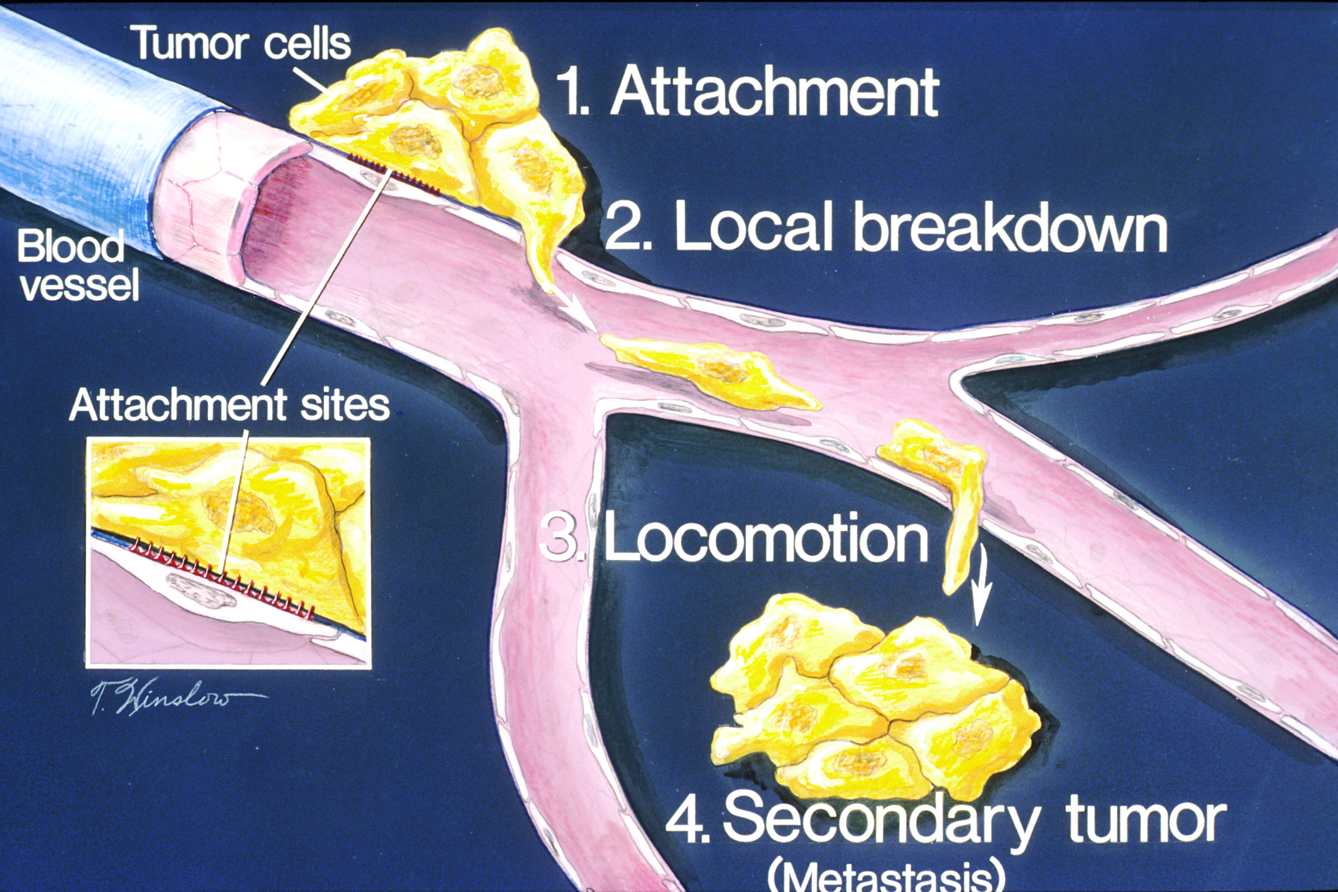 Title How Metastasis Occurs Illustration Description This is a schematic drawing of the stages of metastasis 1) attachment 2) local breakdown 3) locomotion 4) secondary tumor. Topics/Categories Historical, Graphics Type Color, Medical Illustration Source National Cancer Institute